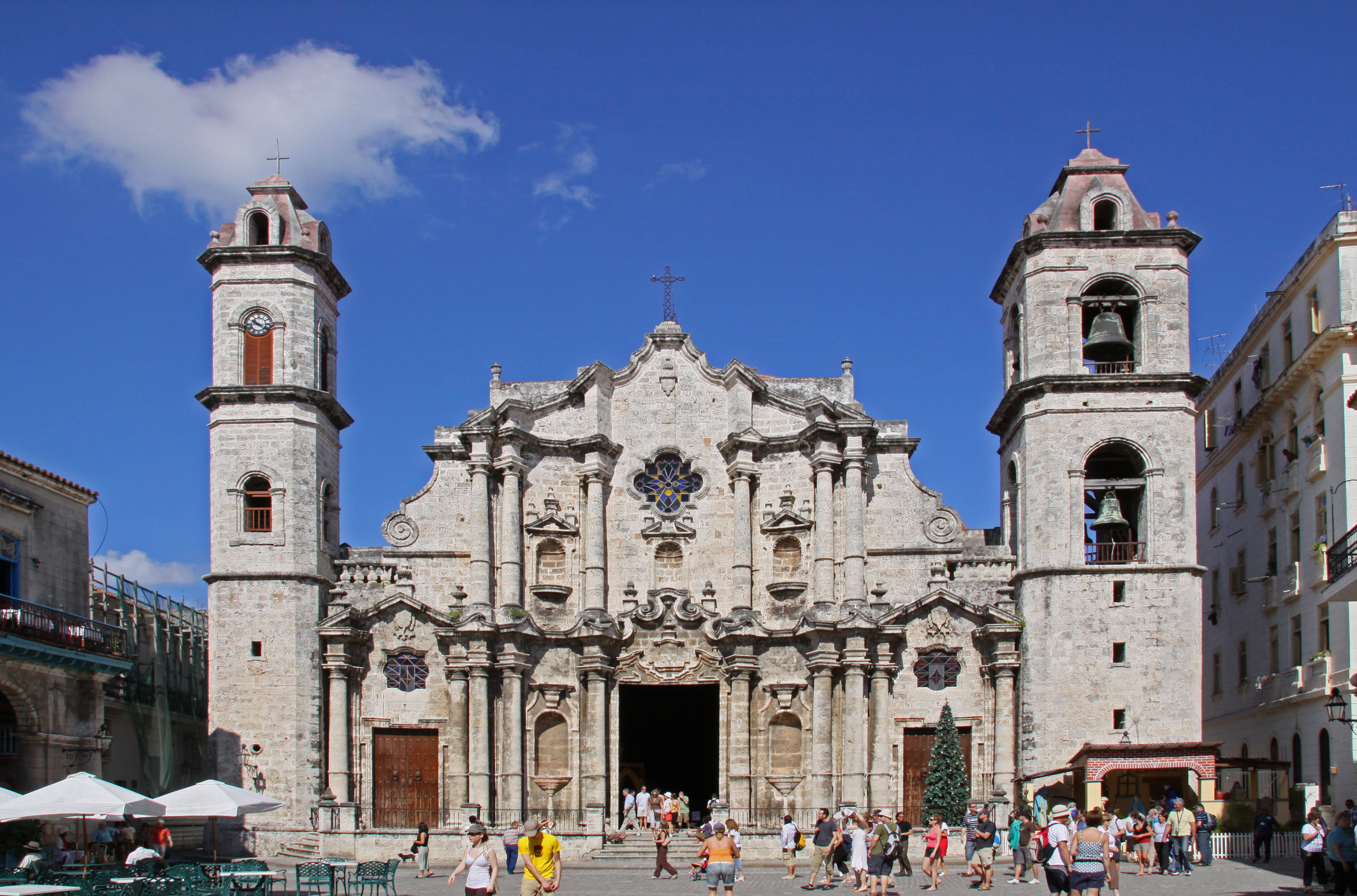 Colonial Baroque facade of Catedral de La Habana — in Old Havana, Cuba.